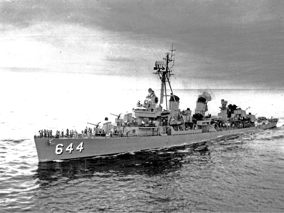 The U.S. Navy destroyer USS Stembel (DD-644) in 1957.